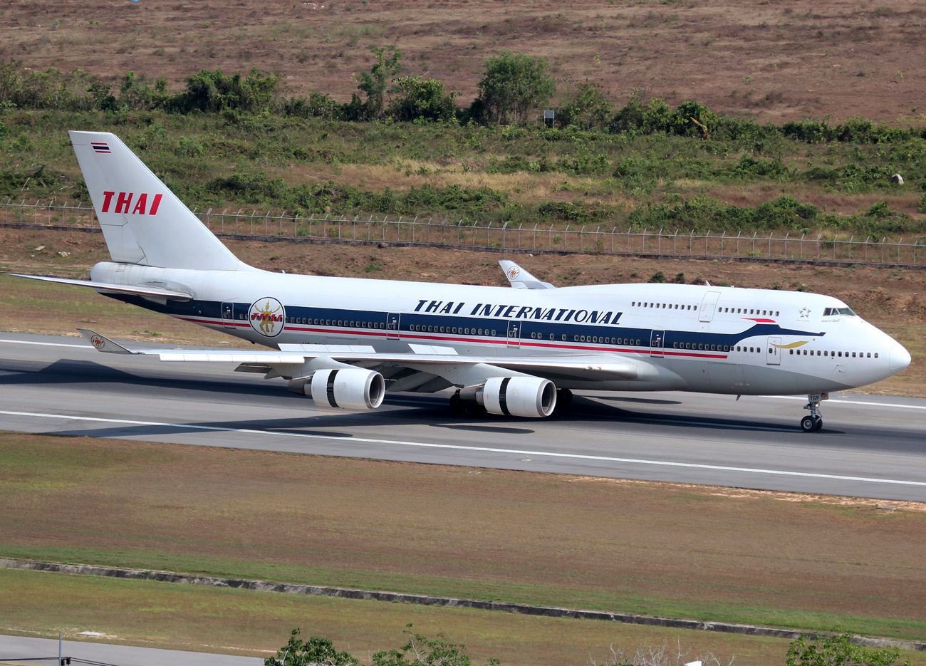 Thai Airways International Boeing 747-400 retrojet at Phuket